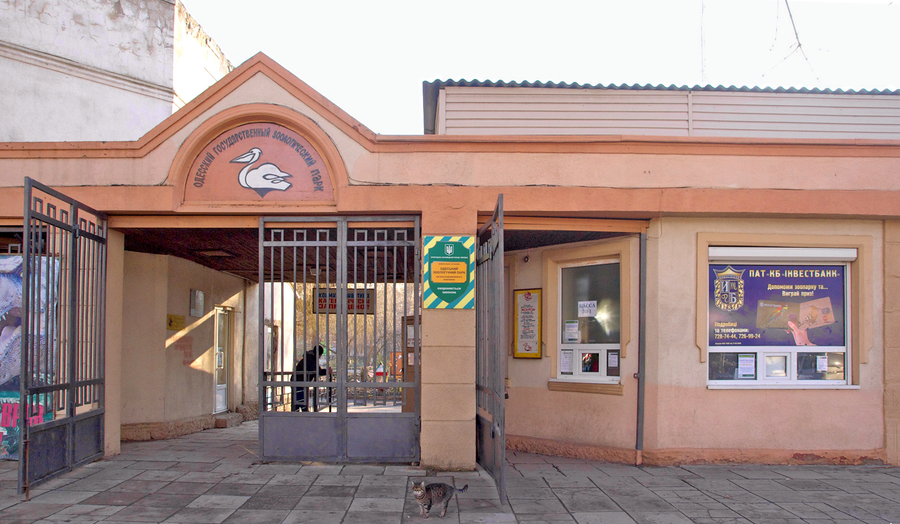 Zoo in Odessa, Ukraine